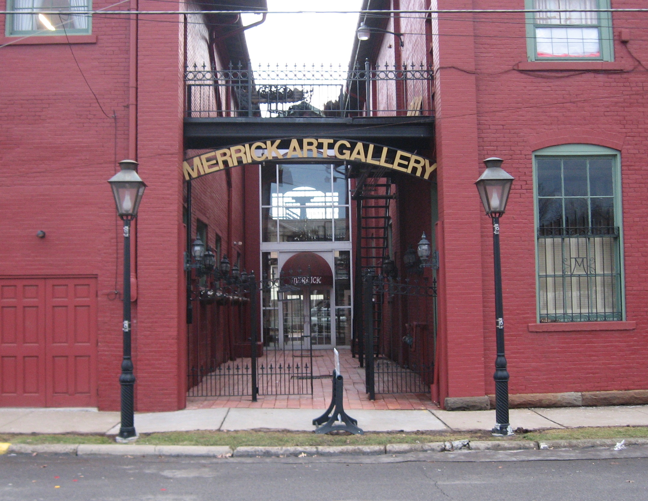 Entrance to the Merrick Art Gallery, located at the intersection of Fifth Avenue and Eleventh Street in New Brighton, Pennsylvania, United States. Built in 1850, the gallery is listed on the National Register of Historic Places.